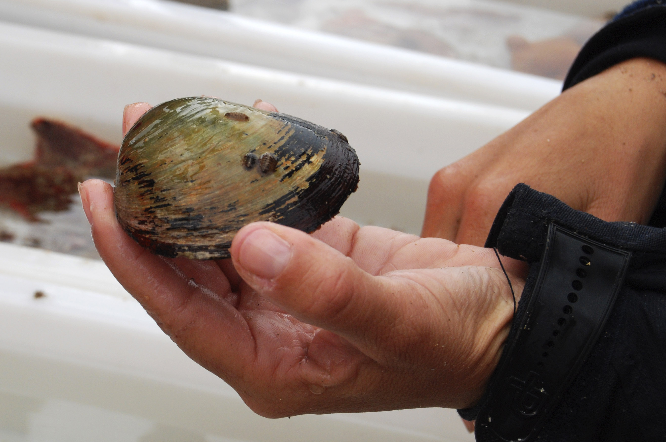 Ocean quahog - Arctica islandica - from the bottom of the Koster fjord, Strömstad, Sweden, July 2015